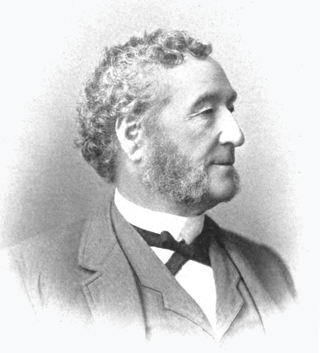 Francis Celeste Le Blond was a politician from Ohio.